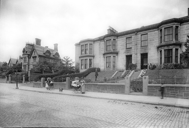 Seymour Lodge view from Perth Road circa 1880.